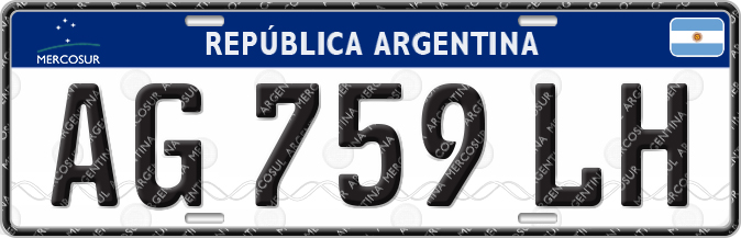 New registration for private cars, which became effective in Argentina from 2016. The image was self-made, following the specifics published by the Argentine National Government.